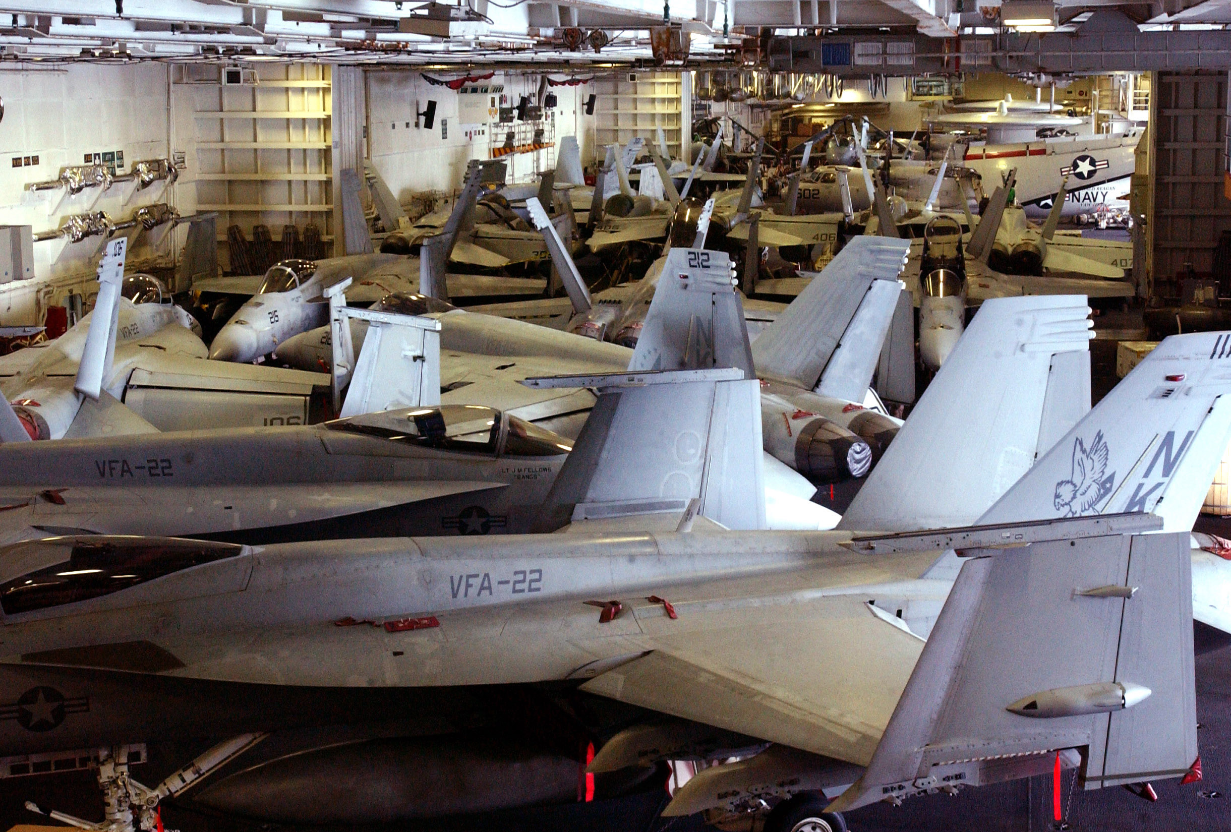 Aircraft fill the hangar bays on board the USS Ronald Reagan in the Pacific Ocean. The Ronald Reagan Carrier Strike Group is under way in support of operations in the Western Pacific.